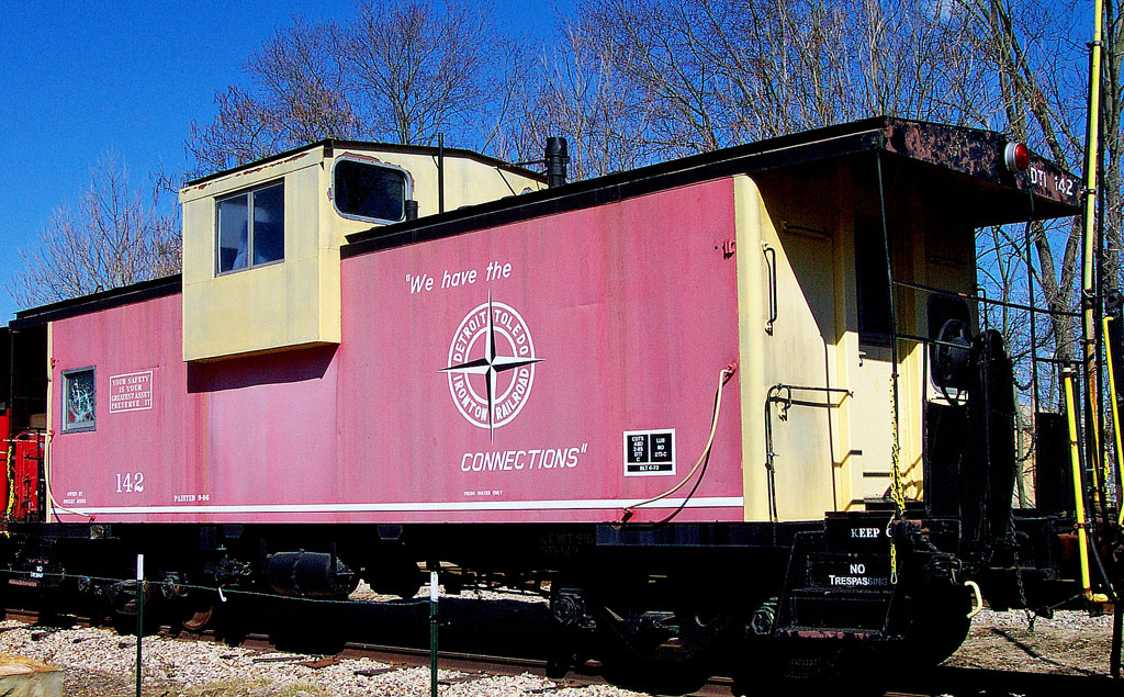 Once pulled by the long-abandoned Detroit Toledo & Ironton Railroad, it's on display at Jackson, Ohio. The railroad was once owned by Henry Ford and served smaller Ohio towns enroute to Detroit.